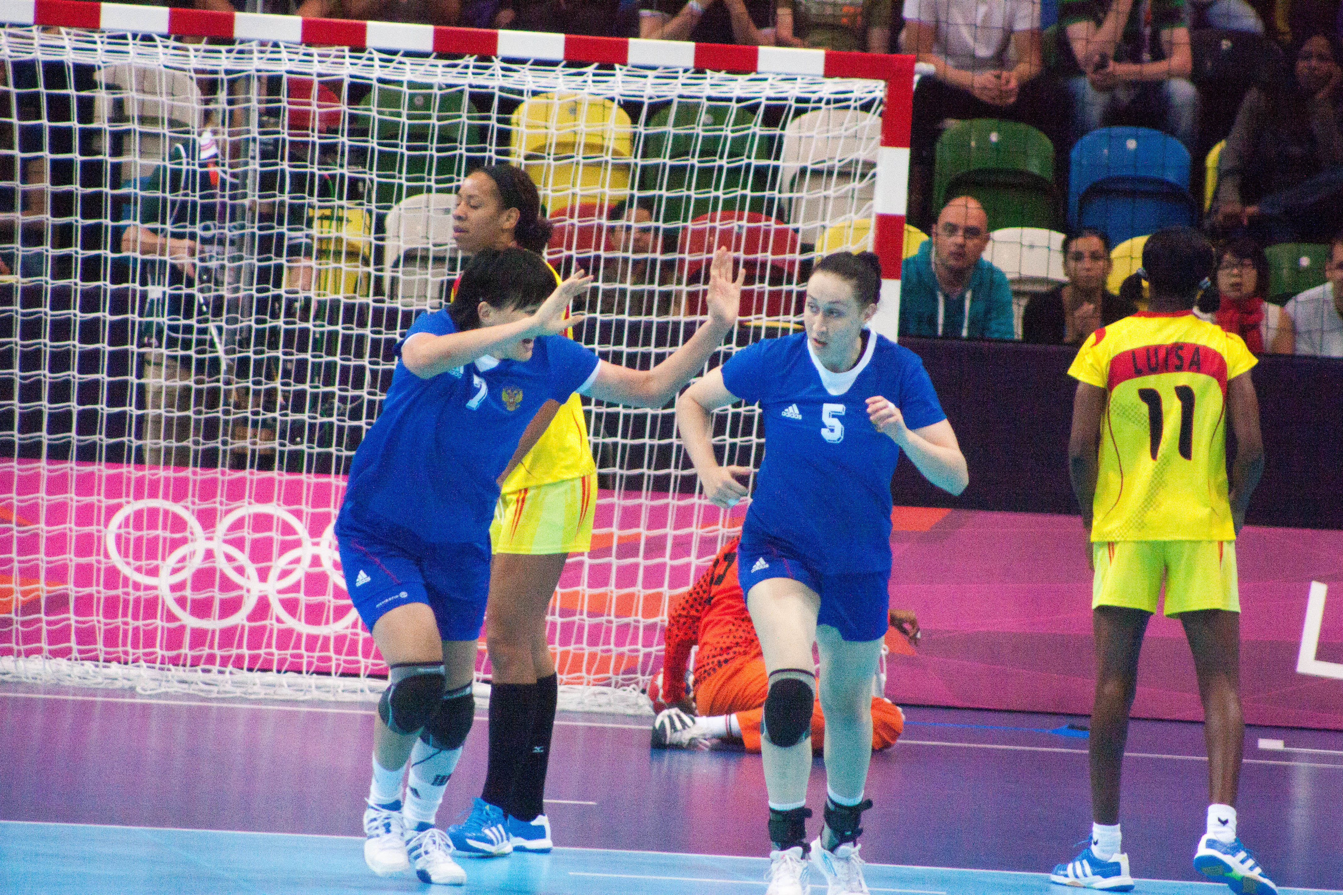 Russia vs Angola at 2012 Summer Olympics